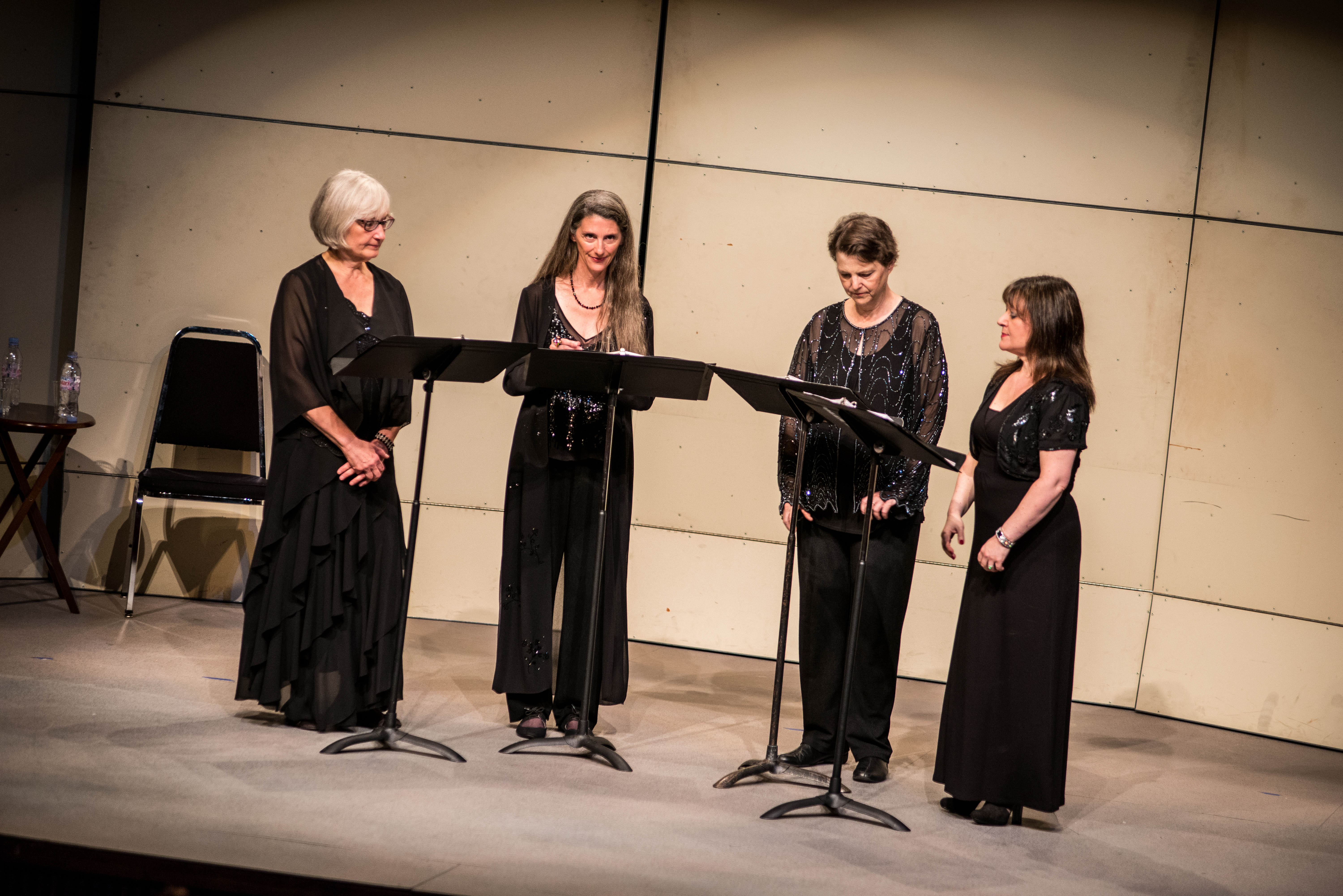 The Performing Arts Series presented an iconic vocal group, Anonymous 4, in its only Virginia performance this season. To mark its 25th year together, Anonymous 4 has created a unique concert program, “Anthology 25.”